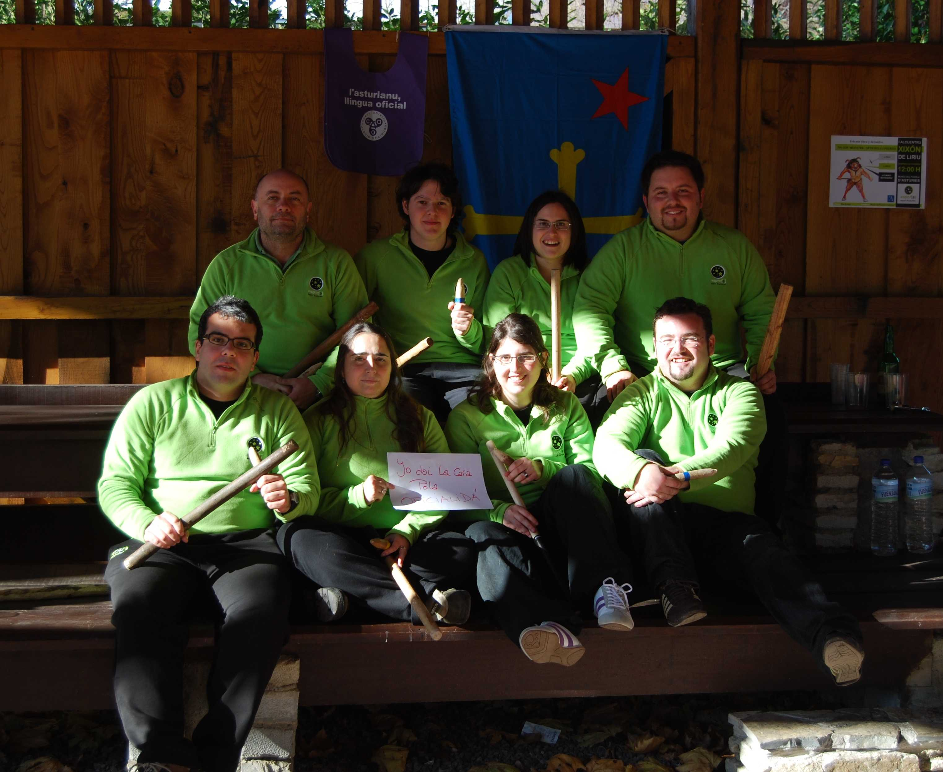 Equipu d'Espora nel I Alcuentru Xixón de Liriu